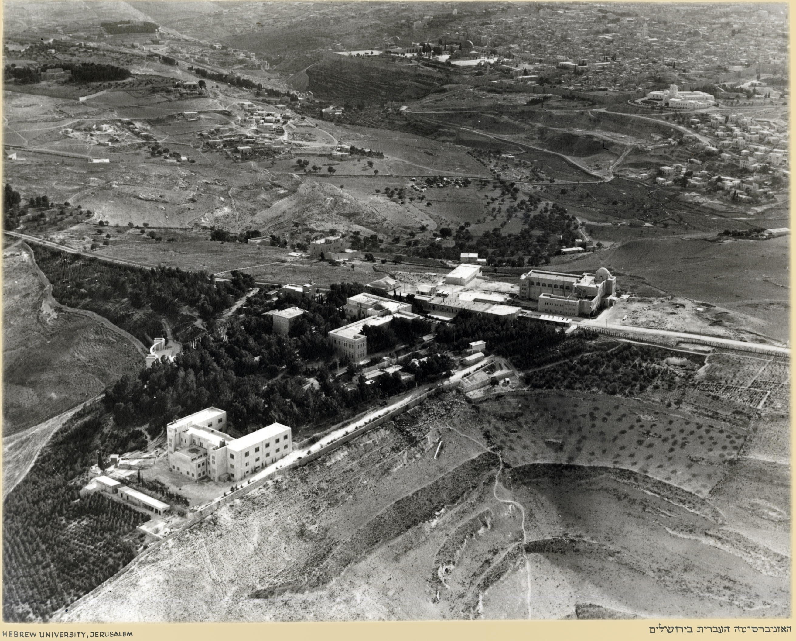 Z. Kluger. Erez Israel from the air - 1937-38